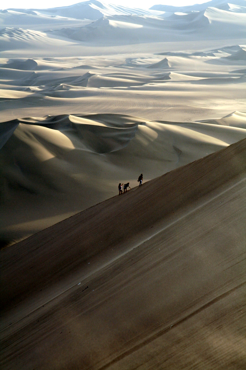 Huacachina , Ica , Peru